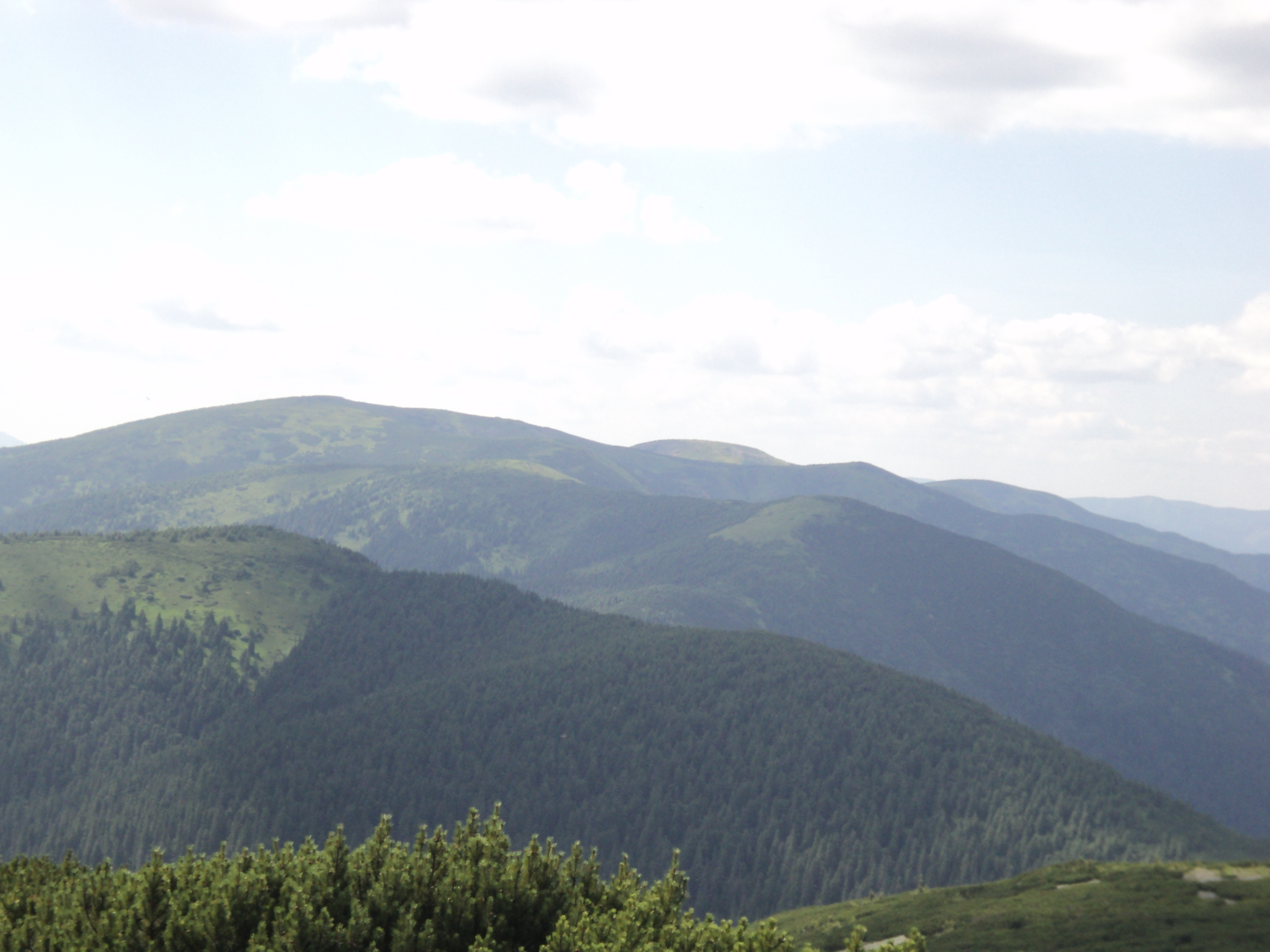 View on Rus'ka (far right), Bratkivska (far left) and Gropa (her) from a local peak between Rus'ka and Chorna Klyva.